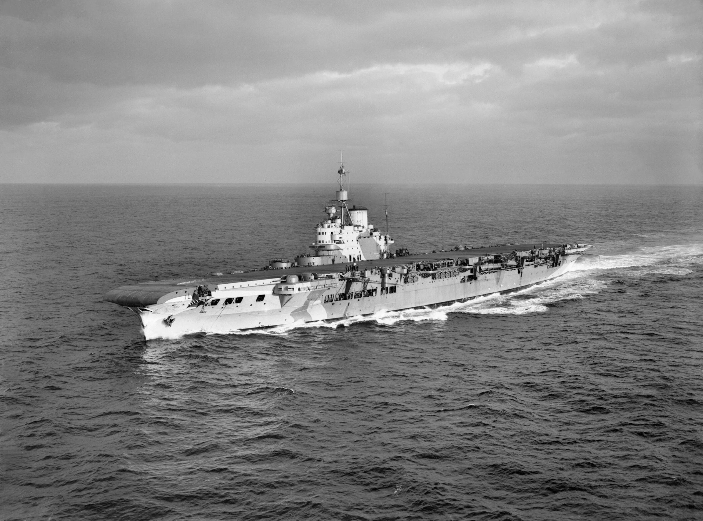 HMS VICTORIOUS underway at near Scapa Flow, 28 October 1941. Aerial photograph of HMS VICTORIOUS underway at sea near Scapa Flow.